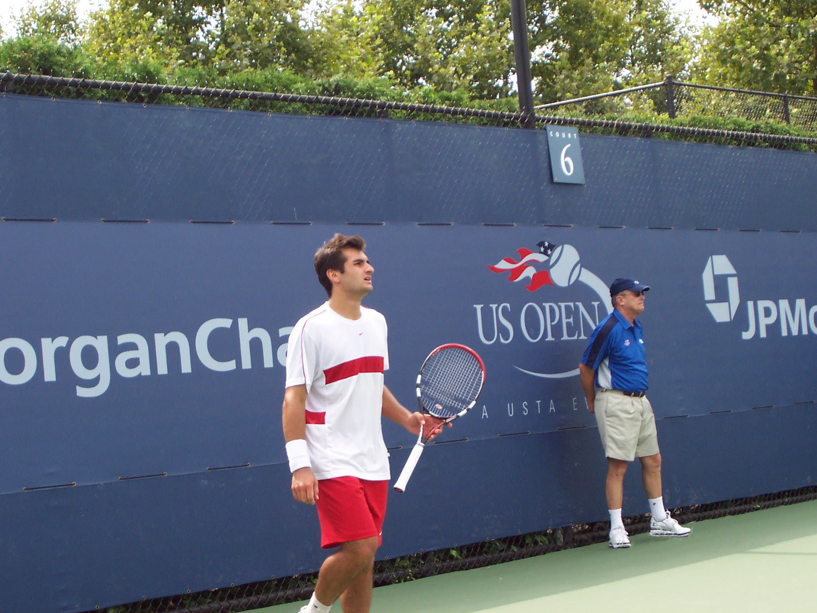 Florent Serra At The 2004 U.S. Open